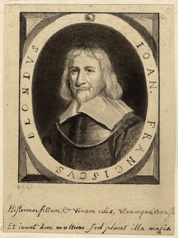 Portrait (ink copy) of Sir Giovanni Francesco Biondi (1572–1644), Italian diplomat, romance writer and historian.